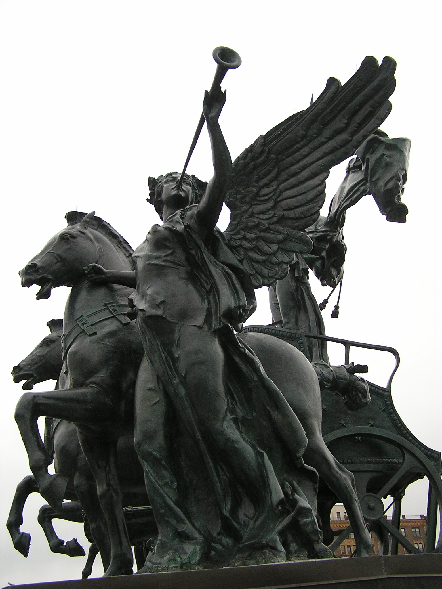 View of Herald of Victory atop Grand Army Plaza Soldiers' and Sailors' Memorial Arch, Brooklyn, New York City.